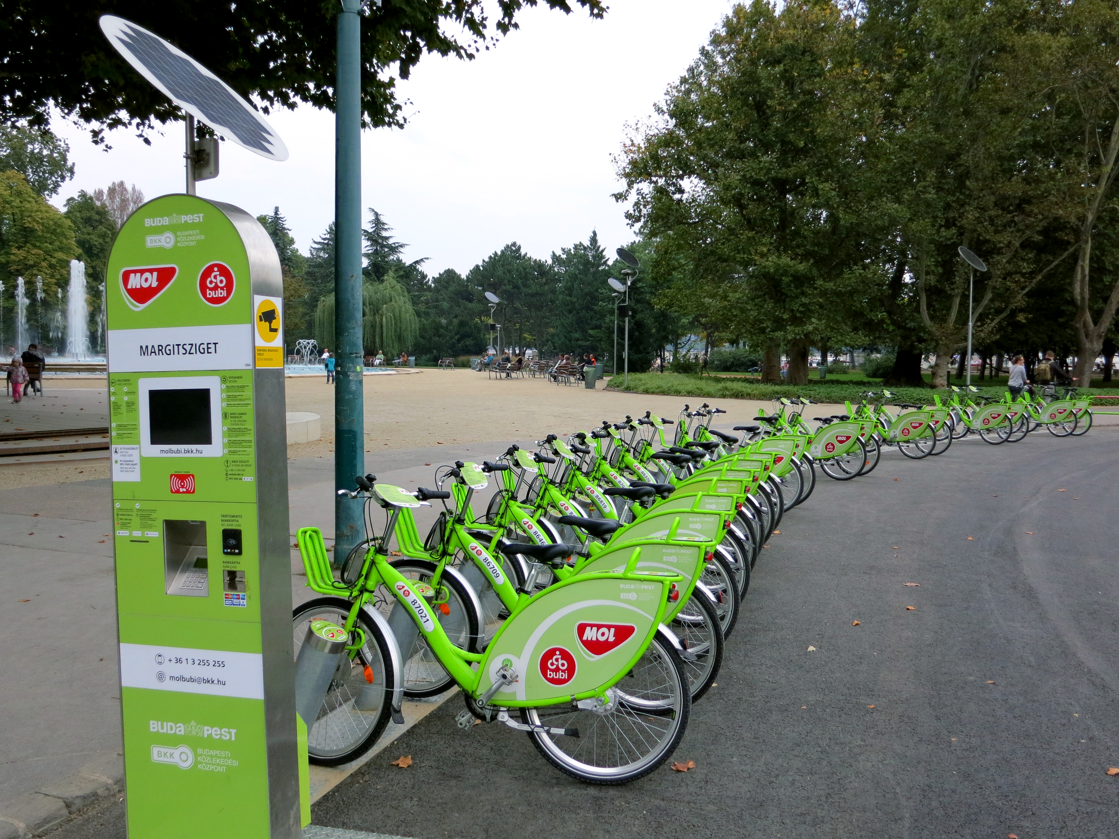 City bikes for rent in the Margaret Island, Budapest.